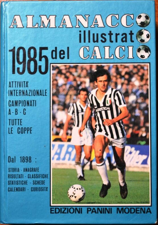 Almanacco Illustrato del Calcio published by Panini-Modena, depicting Juventus player Michel Platni.